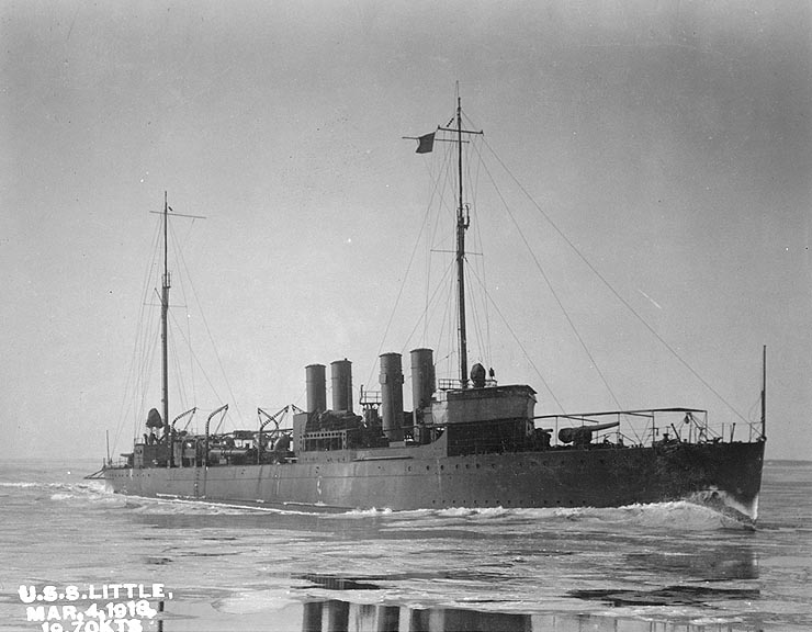 USS Little (DD-79), running trials in icy waters, March 4, 1918. U.S. Naval Historical Center Photograph, Photo #: NH 63478. This image has no copyright restrictions as it was produced by the United States Government. Original caption: “Photo # NH 63478 USS Little running trials, 4 March 1918” — removed caption